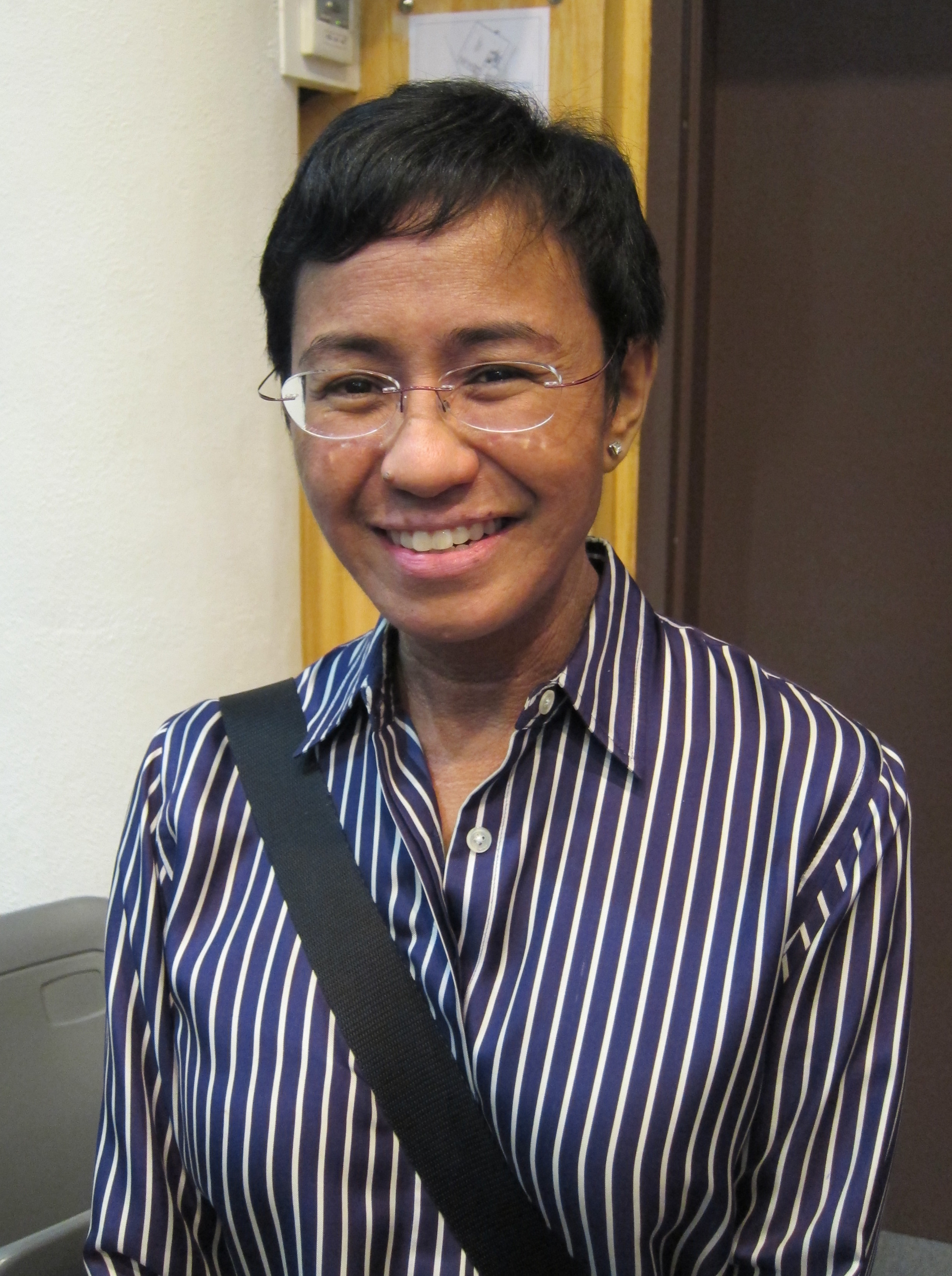 Maria Ressa at the launching of Ambition, Destiny, Victory: Stories from a Presidential Election at the Leong Hall Auditorium, Ateneo de Manila University. Tagalog: Si Maria Ressa sa paglunsad ng aklat na Ambition, Destiny, Victory: Stories from a Presidential Election, na ginanap sa Bulwagang Leong, Pamantasang Ateneo de Manila.